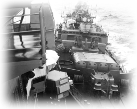 Feathered version of File:USS Yorktown collision.jpg